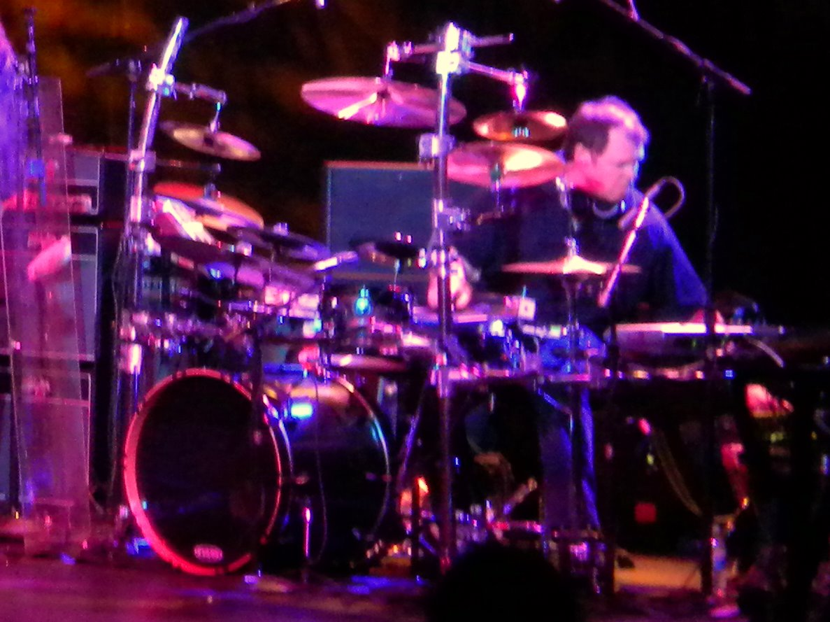 Pat Mastelotto playing drums for HoBoLeMa in Seattle, Washington on January 2nd, 2010.